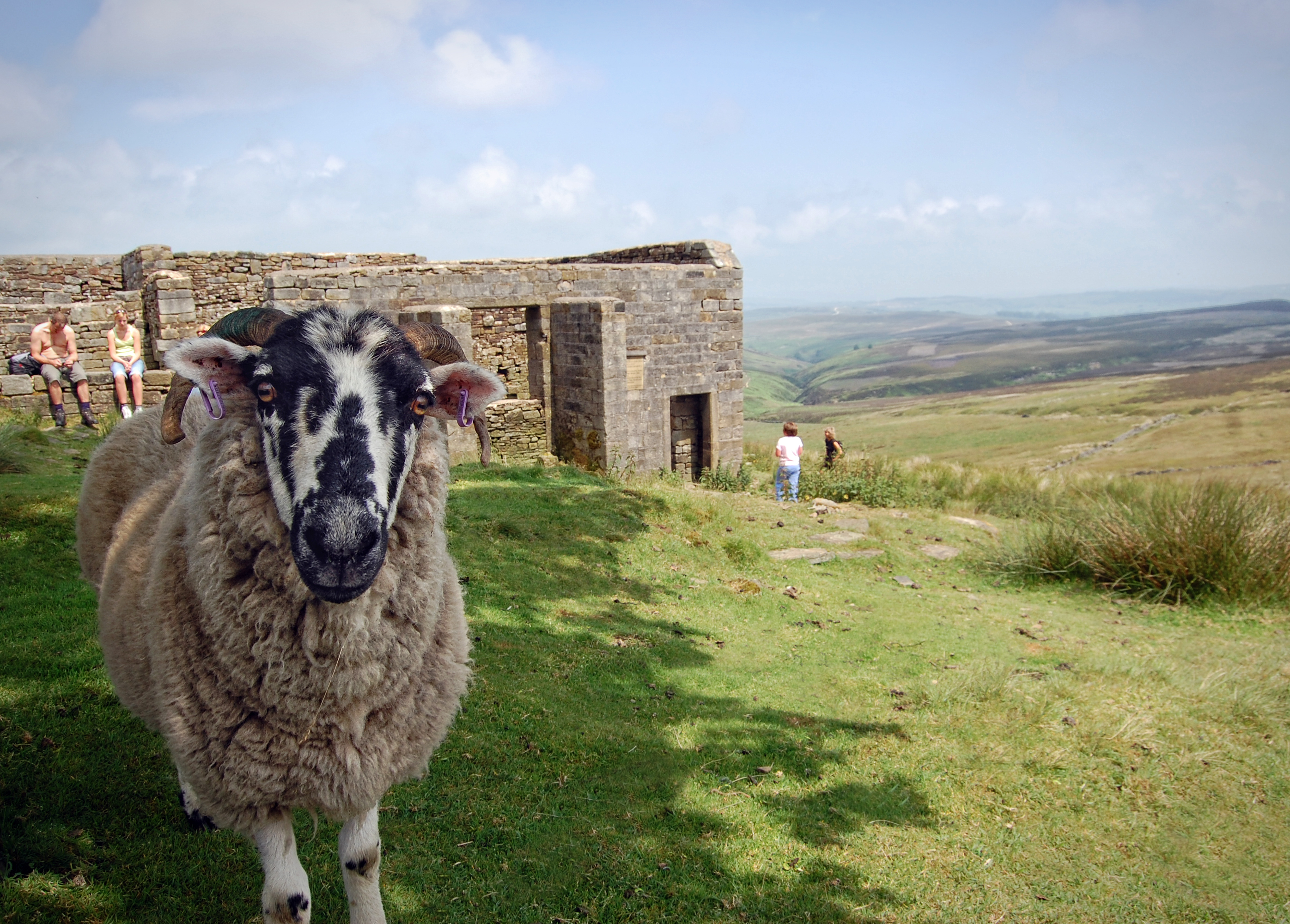 One of the infamous tame sheep of Haworth Moor poses for a photo in front of the ruined farmhouse known as 'Top Withens'. Some believe the location to have been Emily Brontë's inspiration for her famous 1847 novel Wuthering Heights. For those that can appreciate the barren beauty of a moor it is a spectacular spot - this photo was taken on a fine day, but the close fog of winter brings a whole new sort of isolation to the peaks and valleys here. The original copy of this image is online at this address.